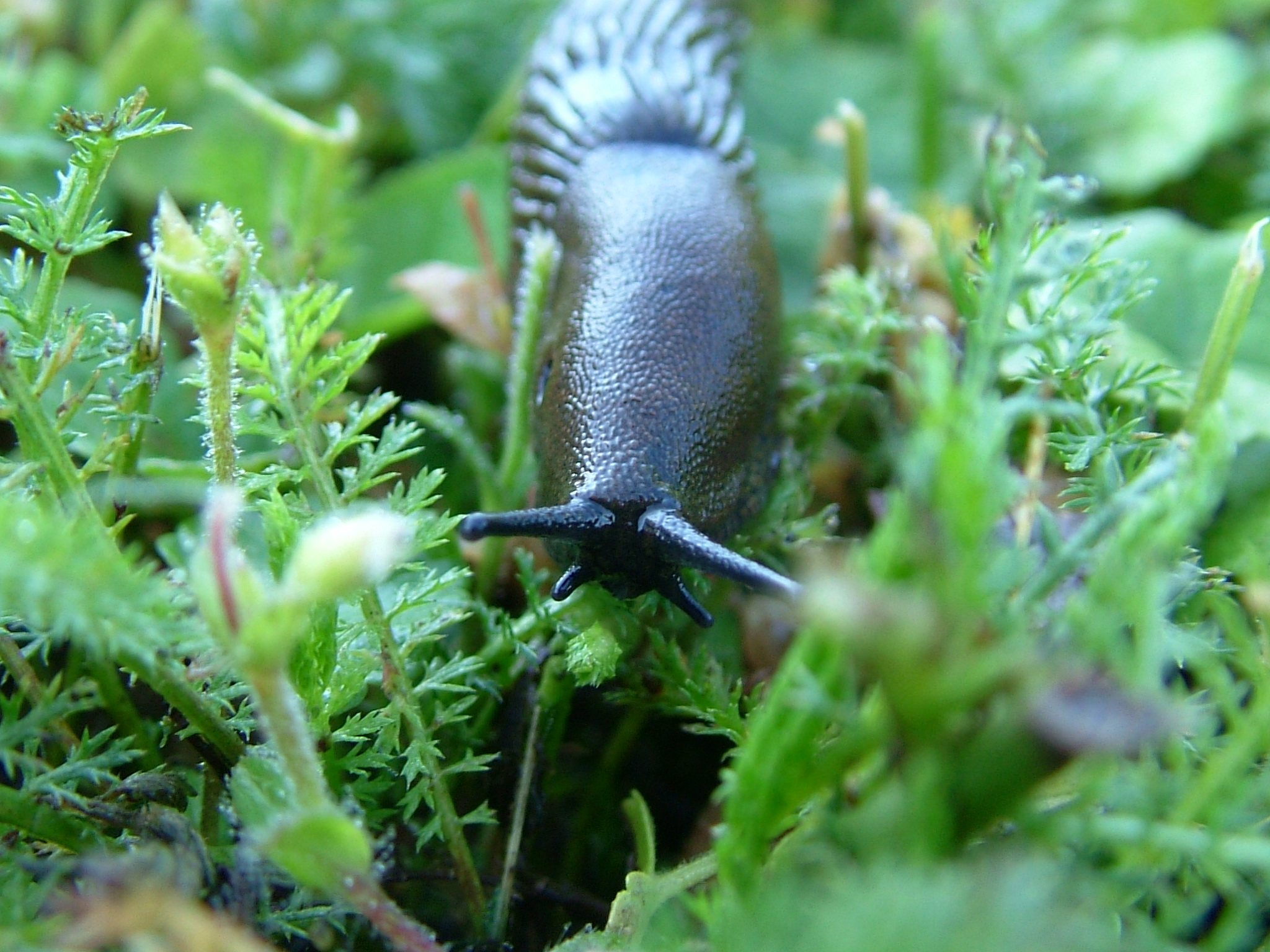 Photograph showing the head of a slug (Arion ater) found in my garden. The picture was taken in Austria in Summer 2005 using the Fujifilm Finepix S20Pro.